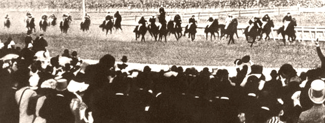 Carbine (NZ)(1885) winning the 1890 Melbourne Cup.